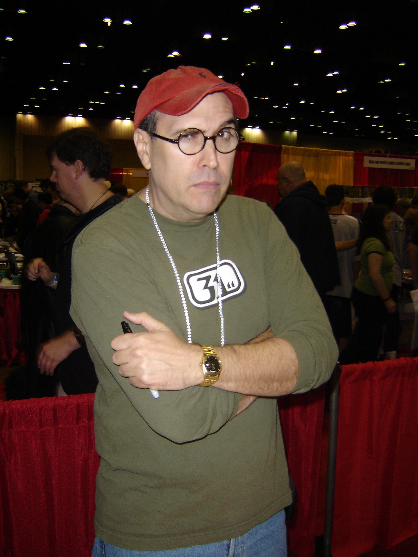 George Lowe posing for pictures at a convention.